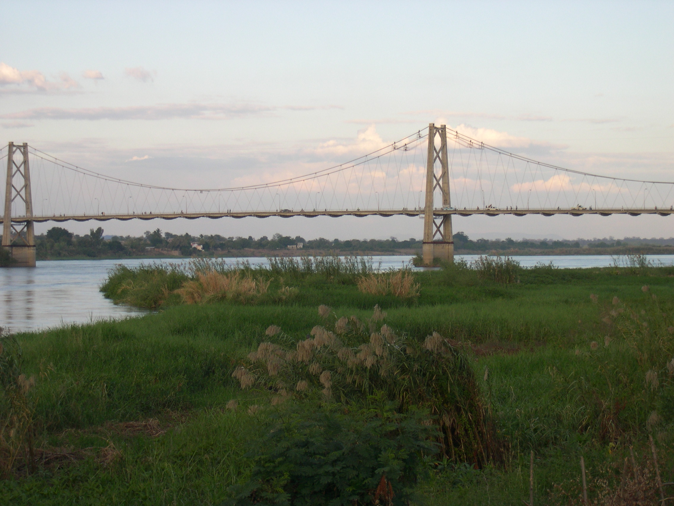 Tete